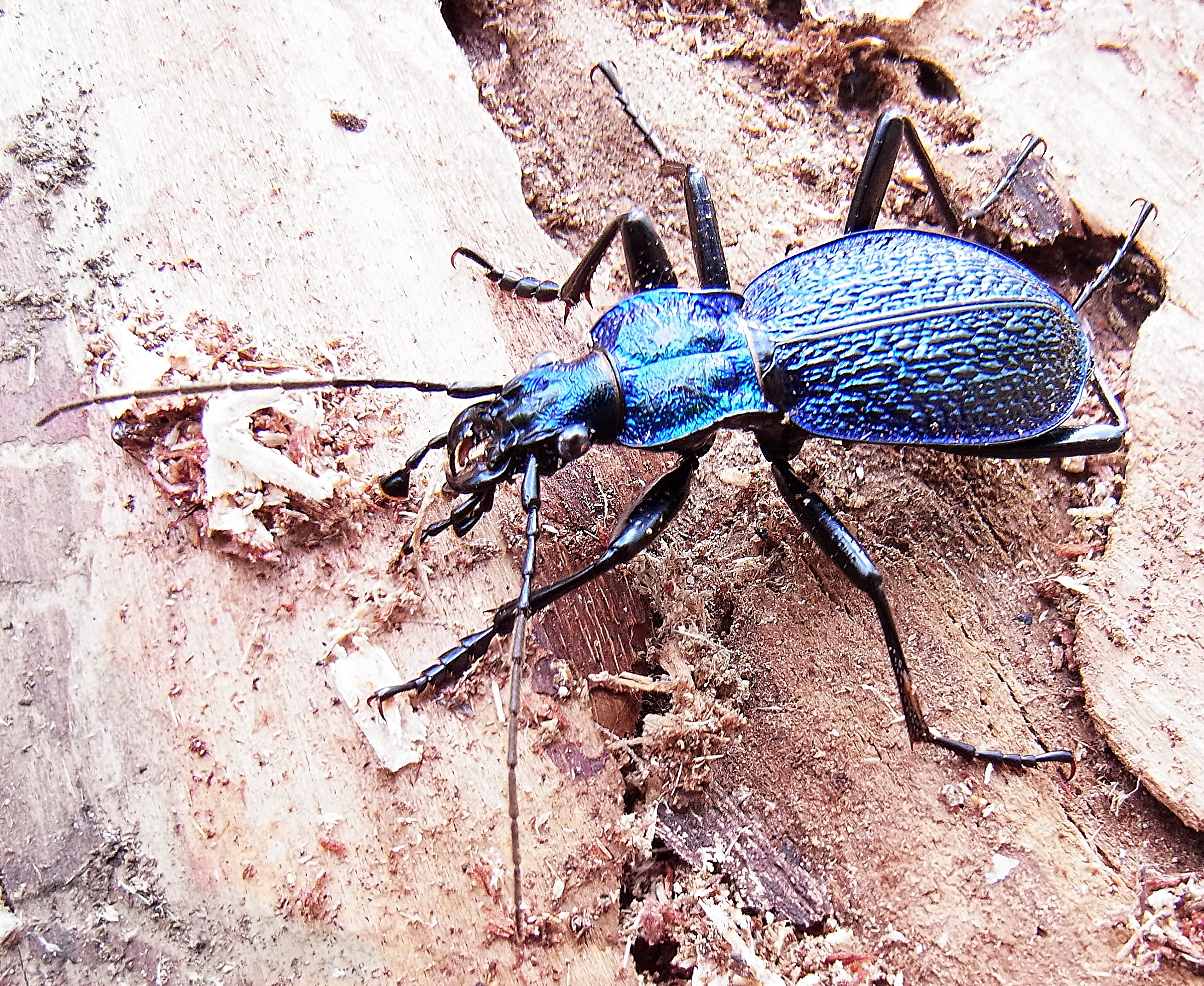 Carabus intricatus from Hungary, Sopron, under bark of a dead pine, at 2012-04-15